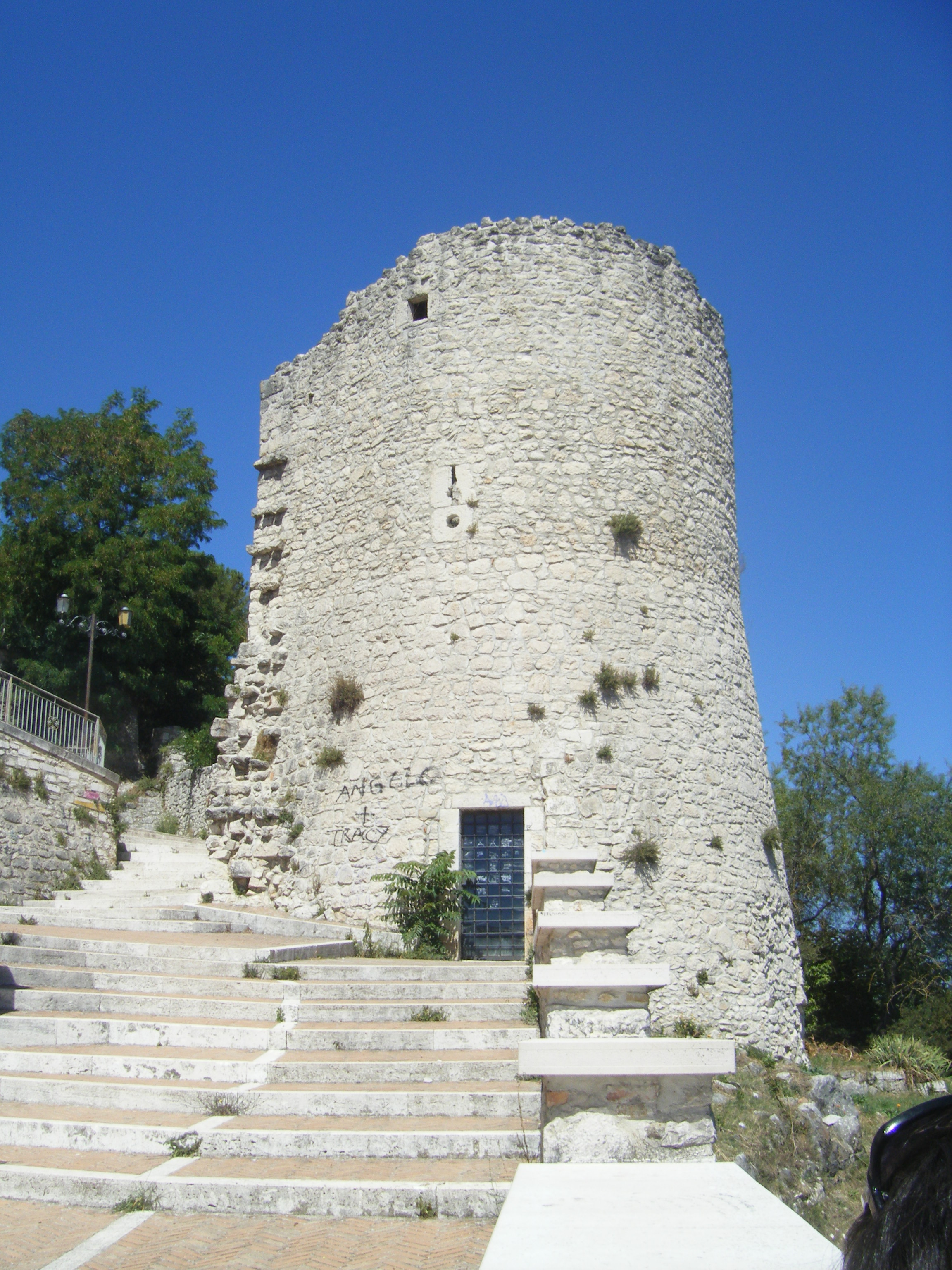 Terzano Tower in Campobasso, Italy